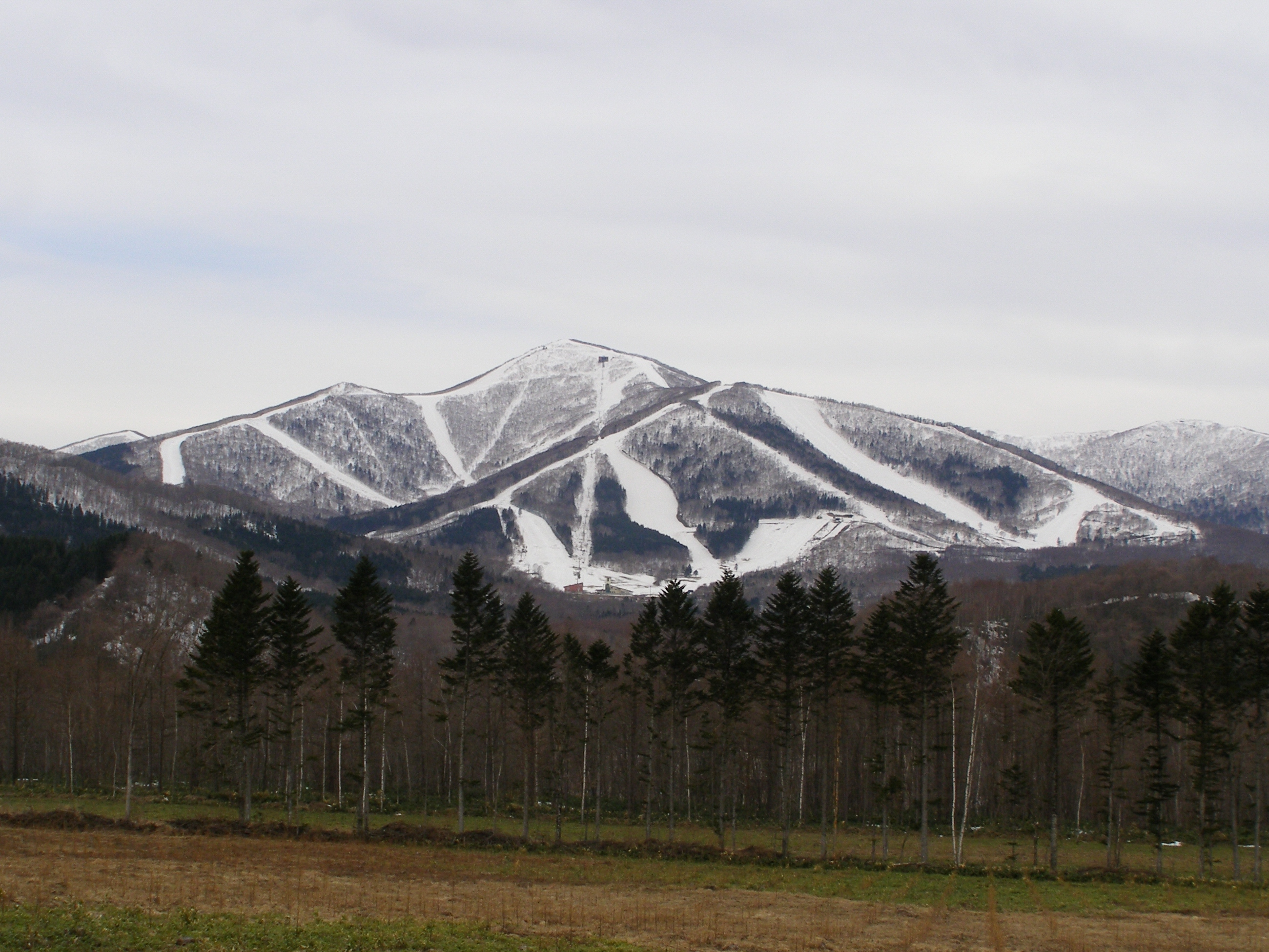 Mount Sahoro as seen from the east in Hokkaido, Japan. Sahoro Resort Ski Area on the mountain.